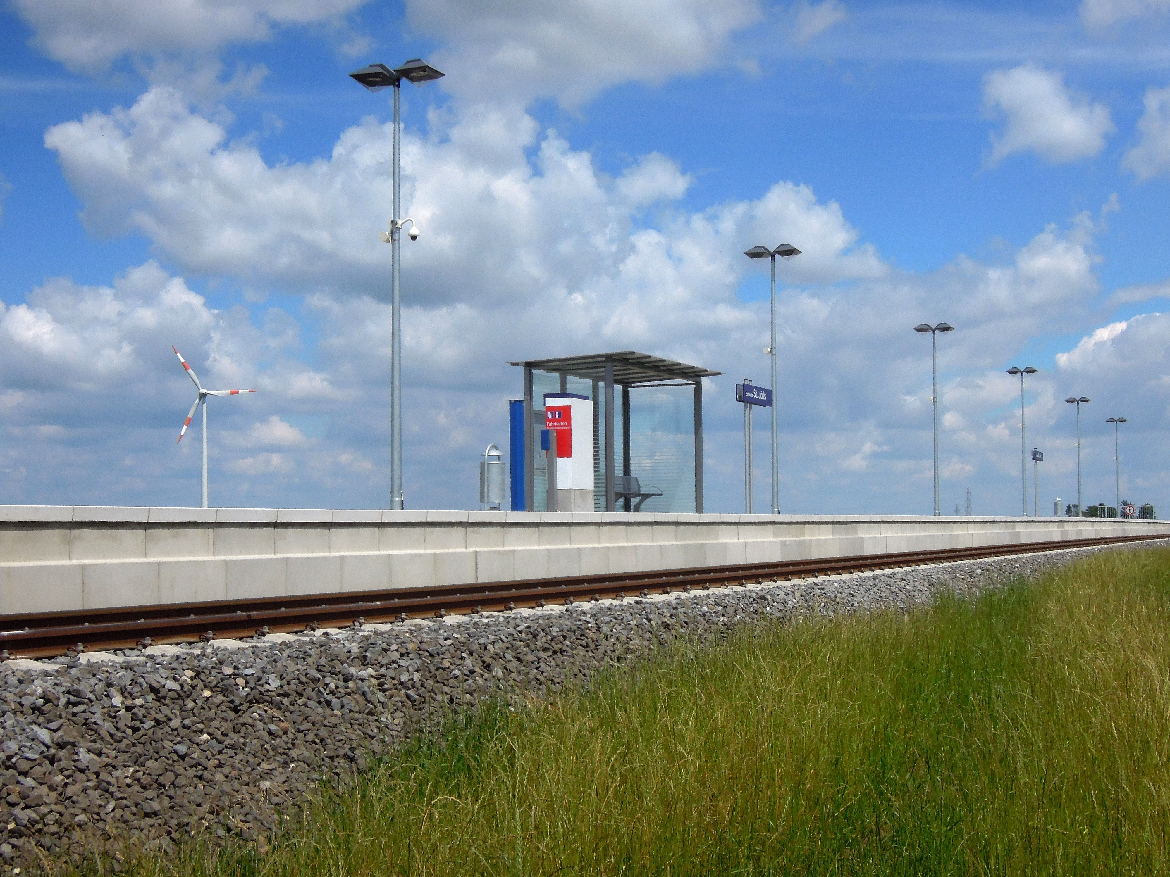 In June 2014, Stolberg–Herzogenrath railway line was extended toward St. Jöris. Impression of the track one week after opening.